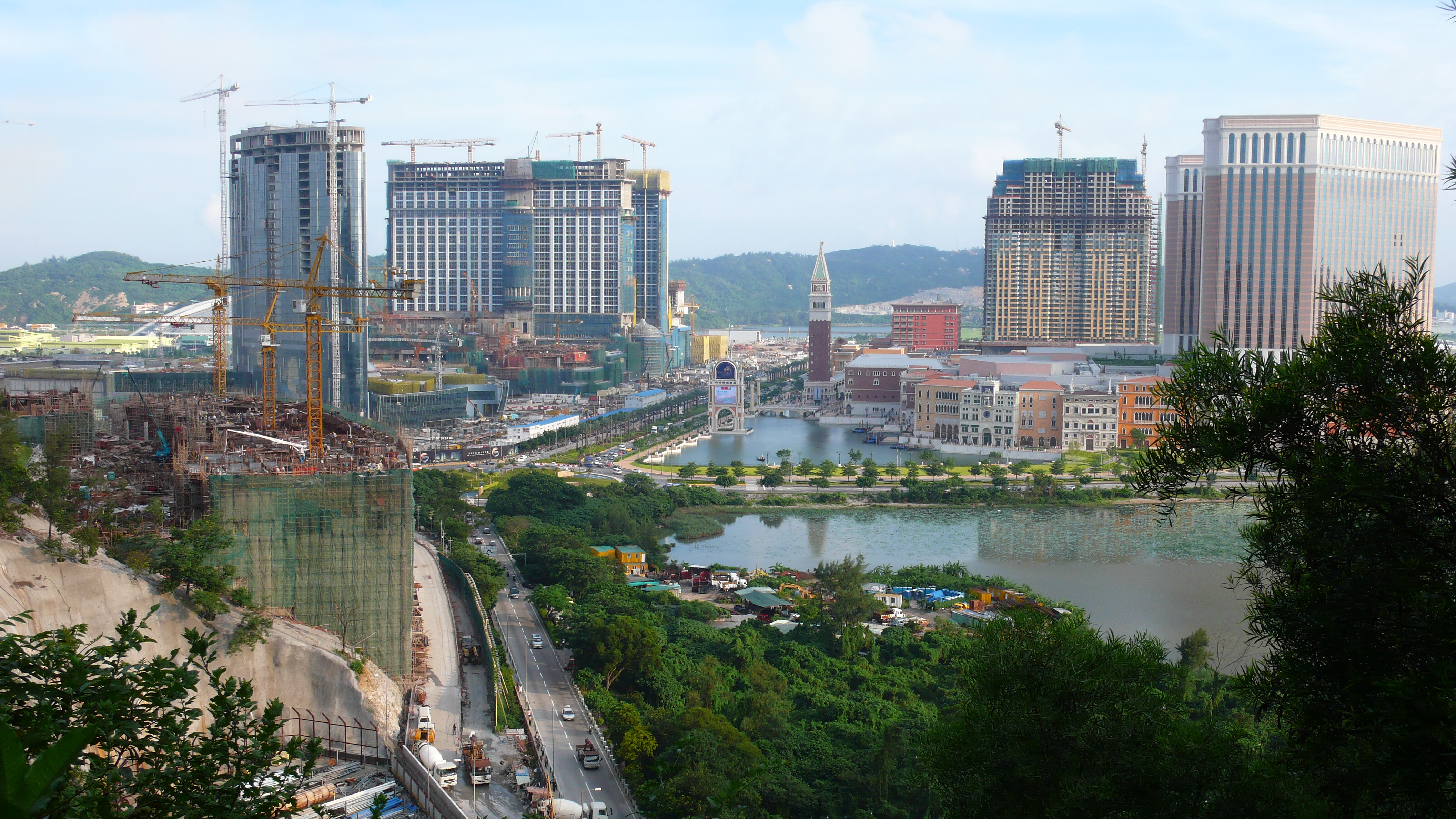 Cotai Strip Overview2